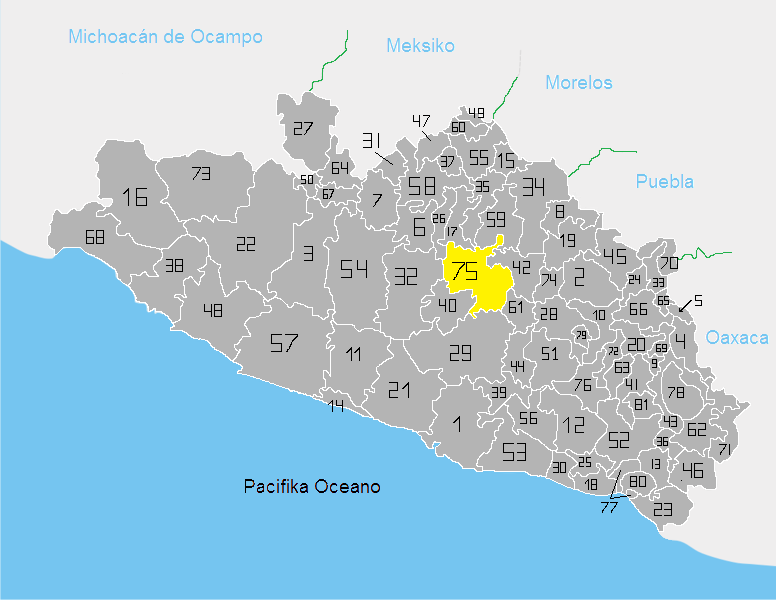 locator map Guerrero 75